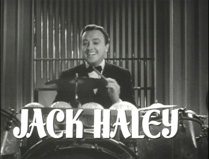 Screenshot of Jack Haley from the trailer for the film Alexander's Ragtime Band